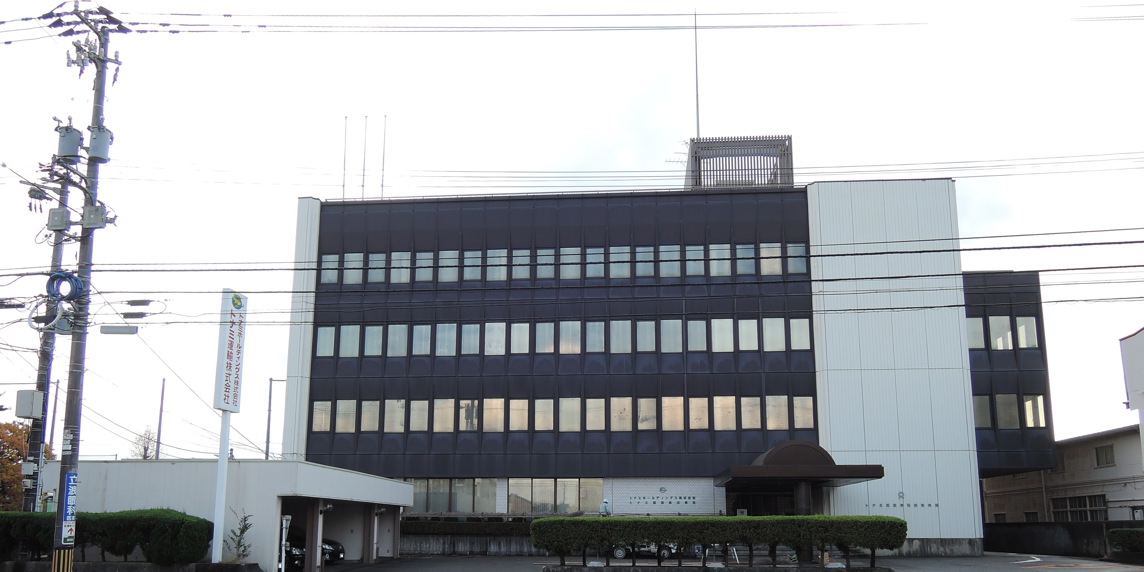 Headquarters of Tonami Holdings Co., Ltd.,Toyama prefecture,Japan